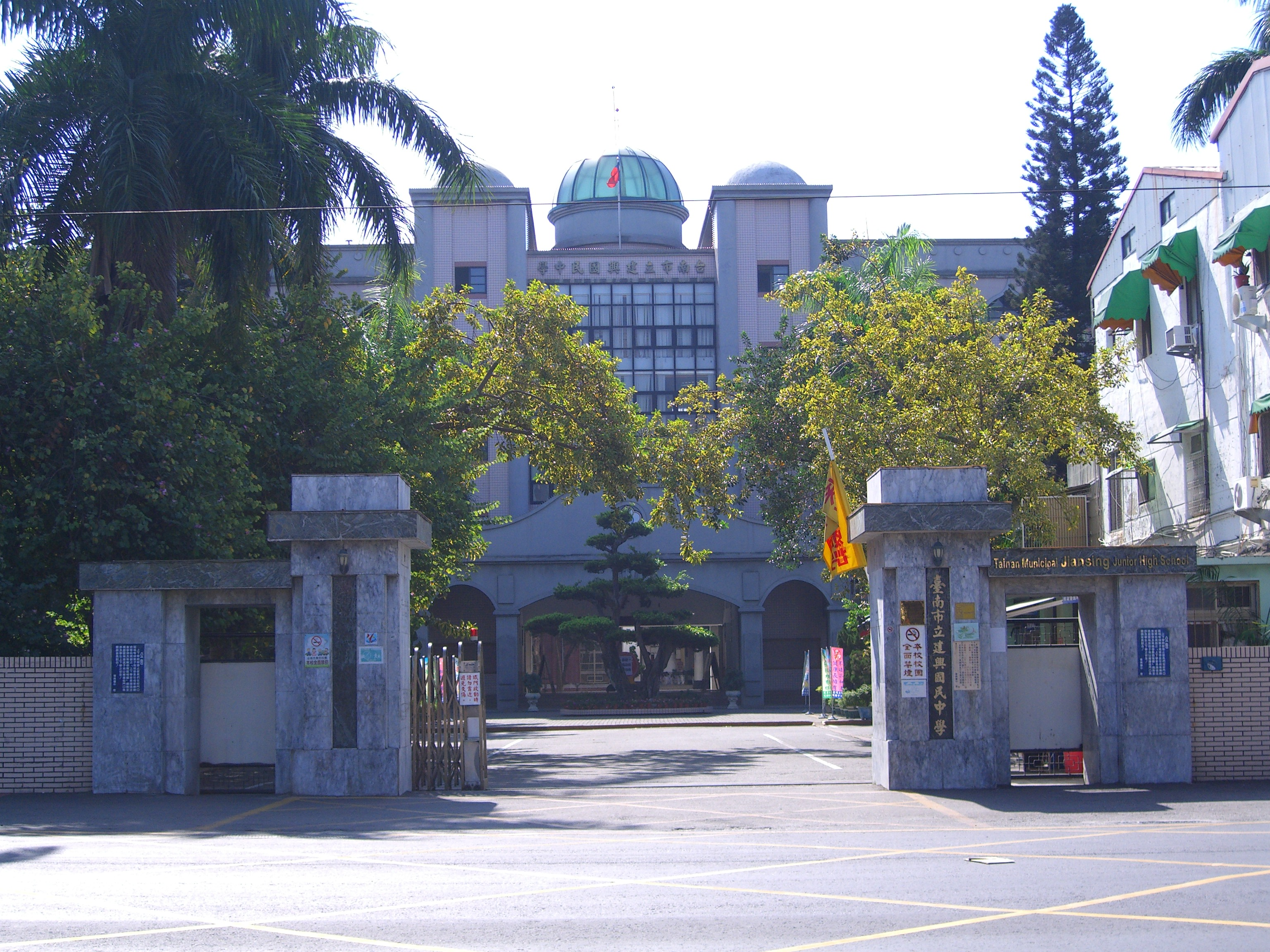 Tainan Municipal Jiansing Junior High School.中文（台灣）: 臺南市立建興國中。